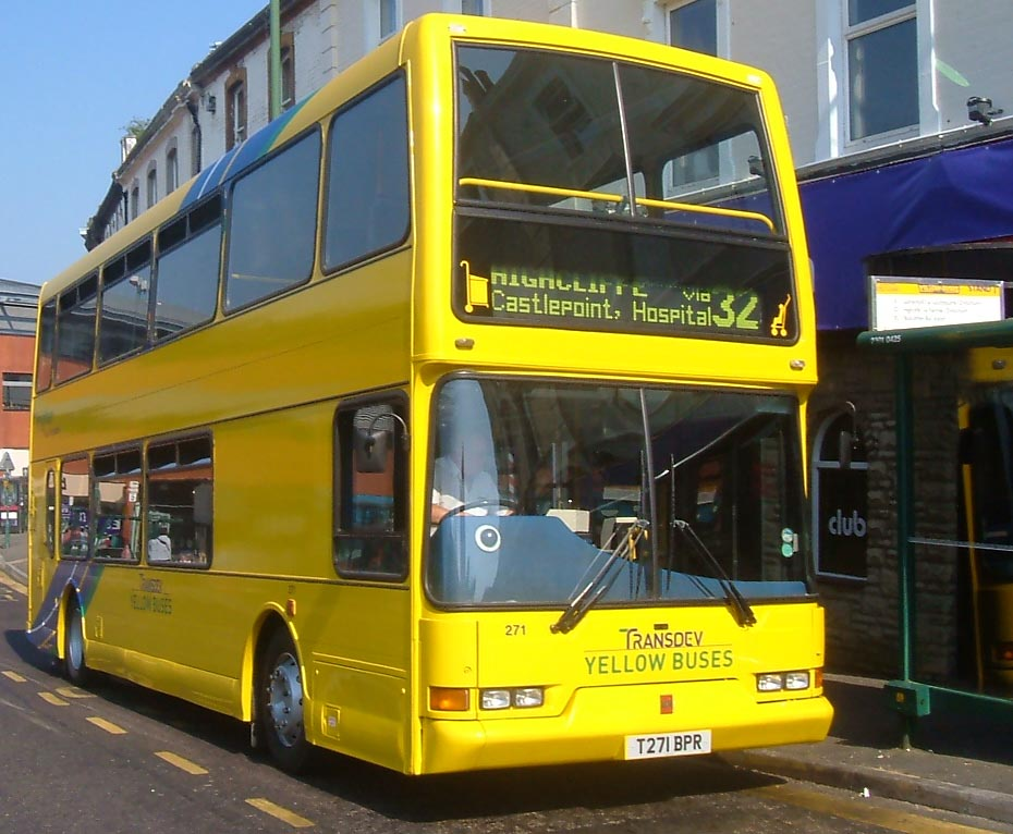 Transdev Yellow Buses 271 (T271 BPR), a Dennis Trident/East Lancs Lolyne, in Bournemouth Triangle, on route 32. This was the first double-decker bus to be painted in the new Transdev livery.